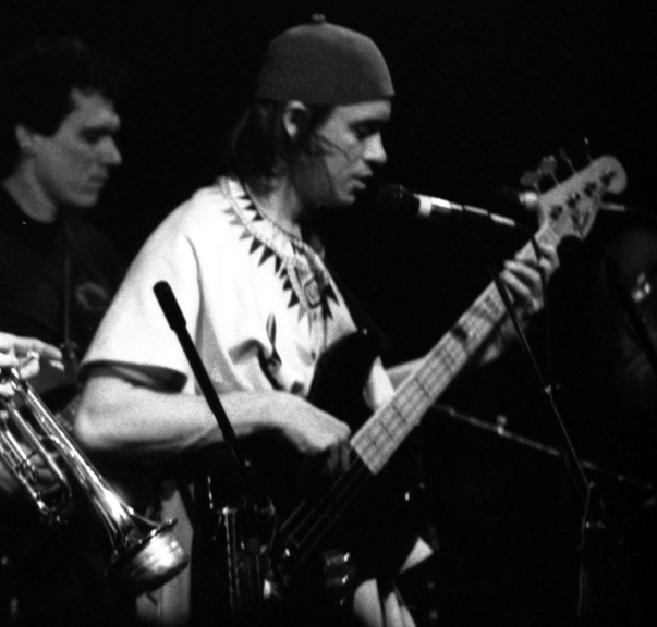 Jaco Pastorius (with Jorma Kaukonen behind him, to the left) at the Lone Star 13th street or 5th ave. New York City, New York 1986